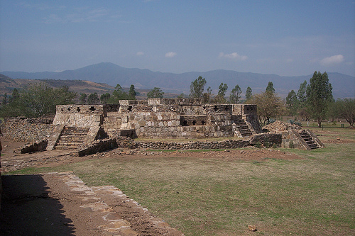 The Toriles ruins in Ixtlán del Río.